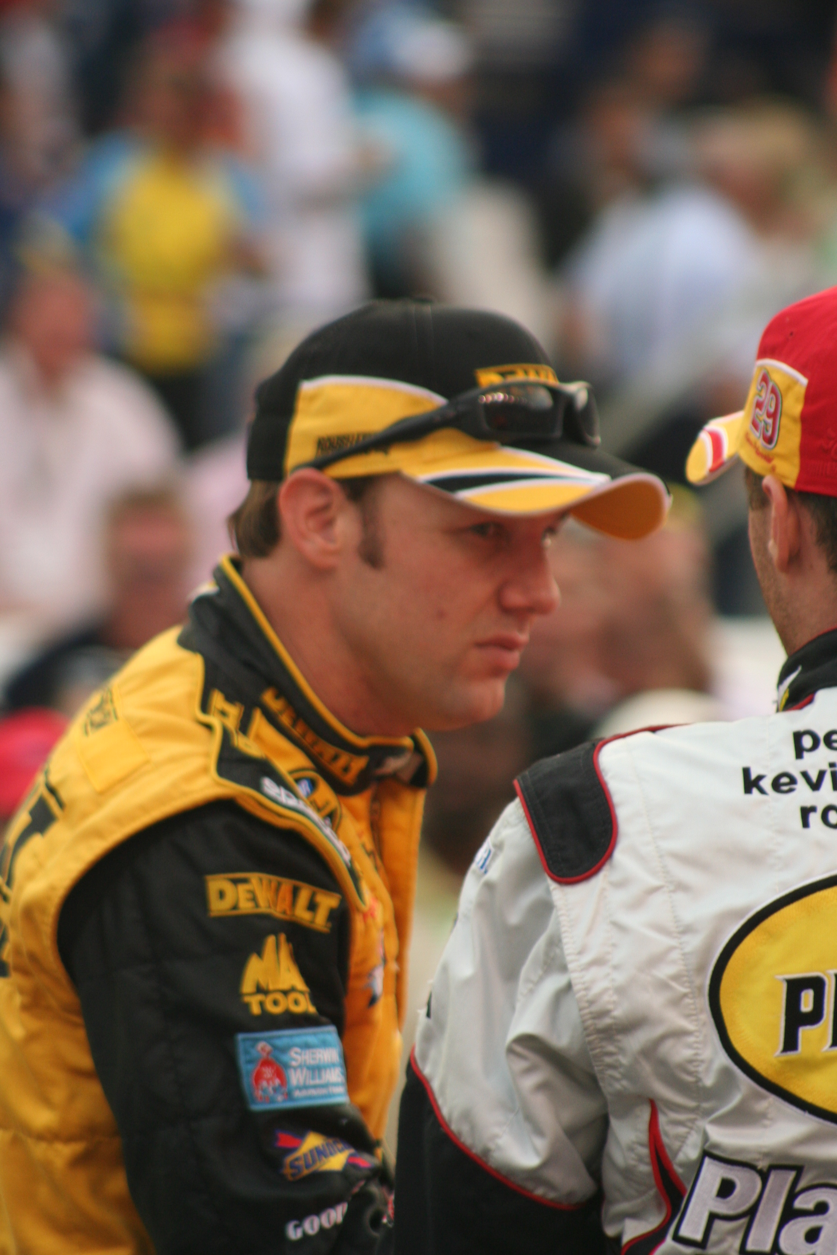 NASCAR driver Matt Kenseth at Bristol Motor Speedway in 2007.